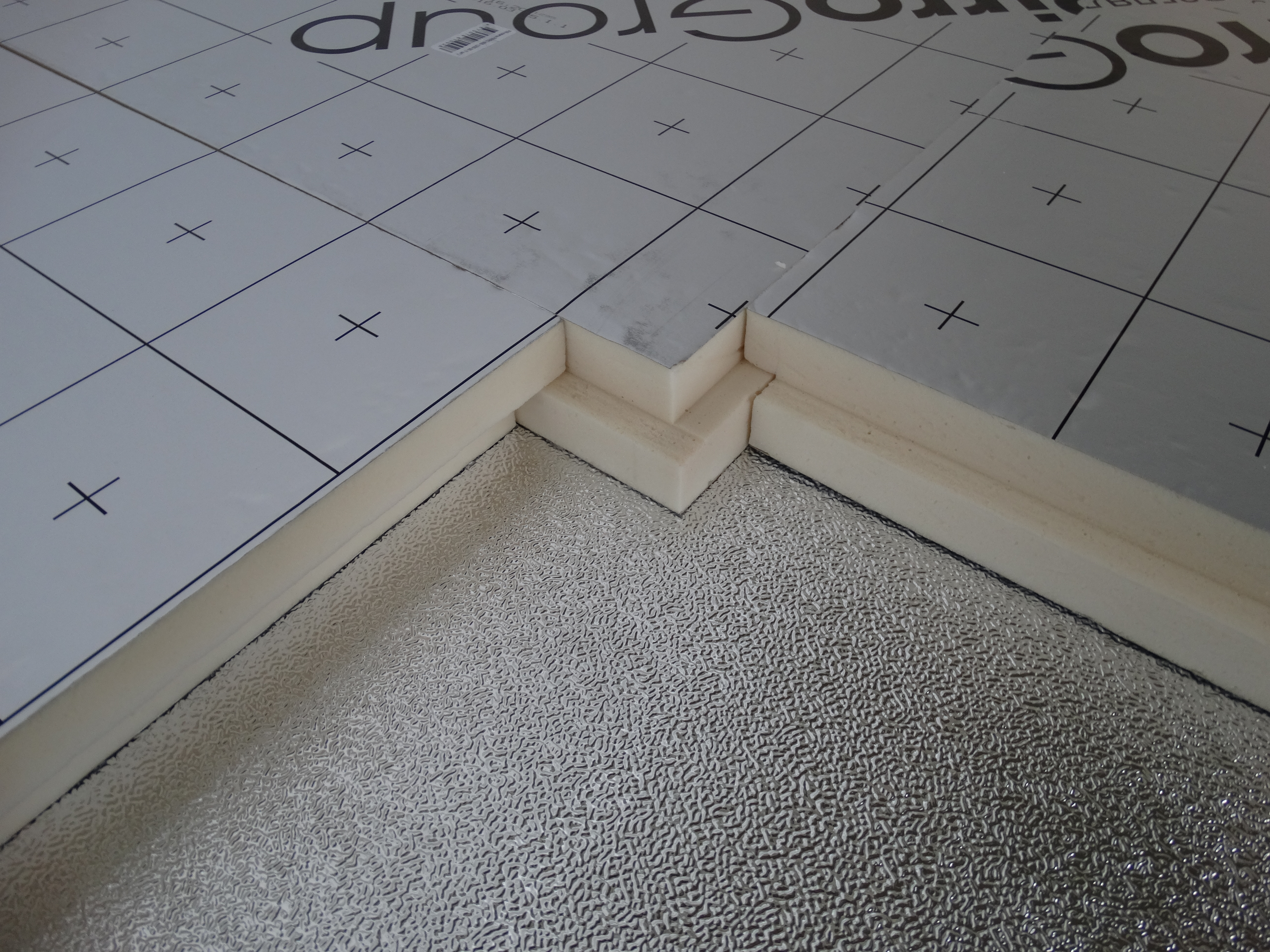 PIR insulation panels